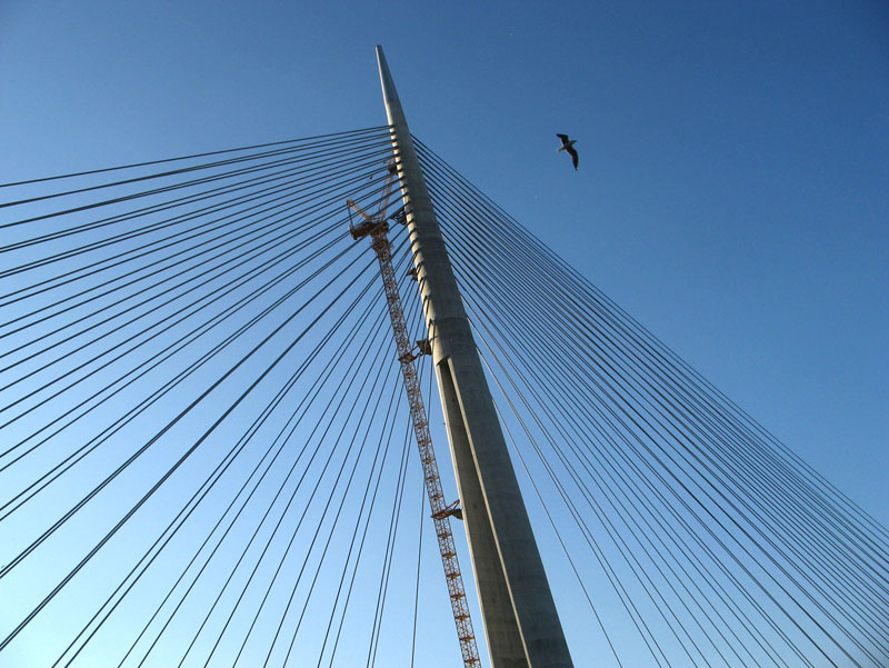 Scott Kelby Worldwide Photo Walk 2011 -Belgrade